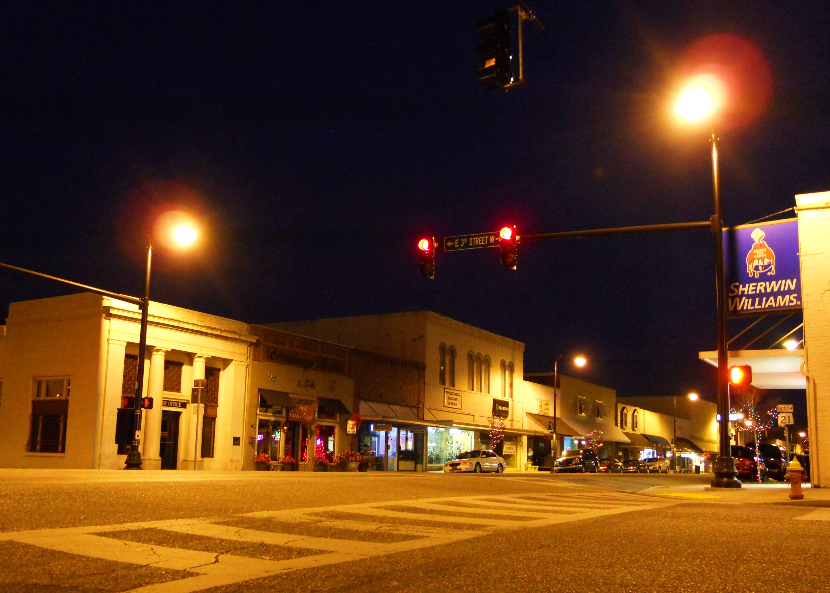 This is a photograph of Sylacauga, Alabama